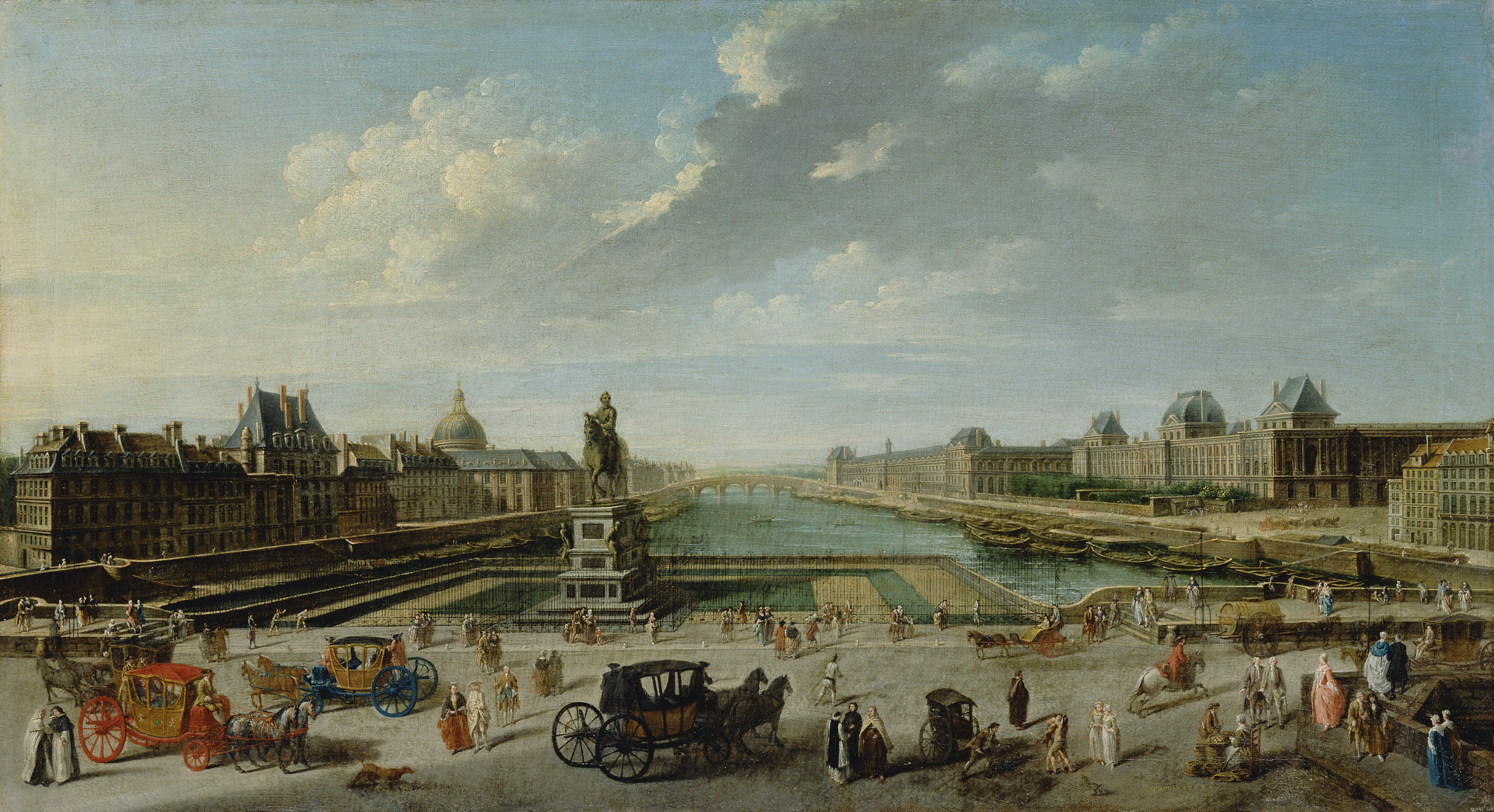 Horse-drawn carriages and strolling couples make their way across the Pont Neuf, one of the oldest bridges in Paris. Boats are tied up on both sides of the Seine River, a heavily traveled thoroughfare. In the center, behind an iron fence, stands an equestrian statue of Henri IV. On the right bank of the river is the Louvre, the national museum and art gallery of France. The dome of the Collège des Quatre-Nations can be seen on the left bank in the distance. Jean-Baptiste Nicolas Raguenet specialized in views of Paris and owned a small shop for their sale in the rue de la Colombe on the Ile de la Cité. This view of Paris in the 1700s and its companion piece, View of Paris with the Ile de la Cité, were probably painted for an English patron, Lord Holland.